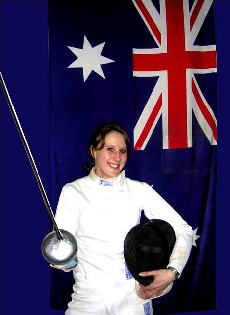 The Australian epee champion, Amber Parkinson's photo, taken by Amber herself and modified by me. Fully authorised by Amber to be put on Wikipedia.